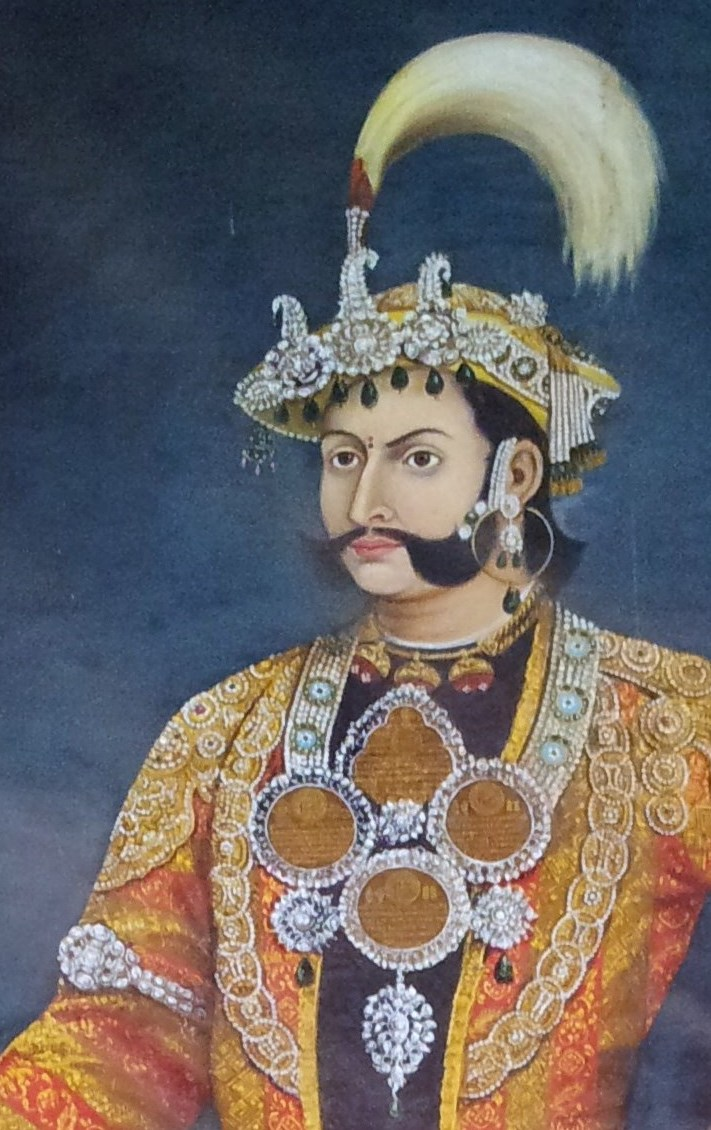 Portrait of Muktiyar Mathabar Singh Thapa in National Museum of Nepal, Chauni